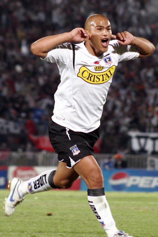 Humberto Suazo, in the final of the final of the 2006 Clausura Tournment of the Chilean football league, between Colo-Colo and Audax Italiano